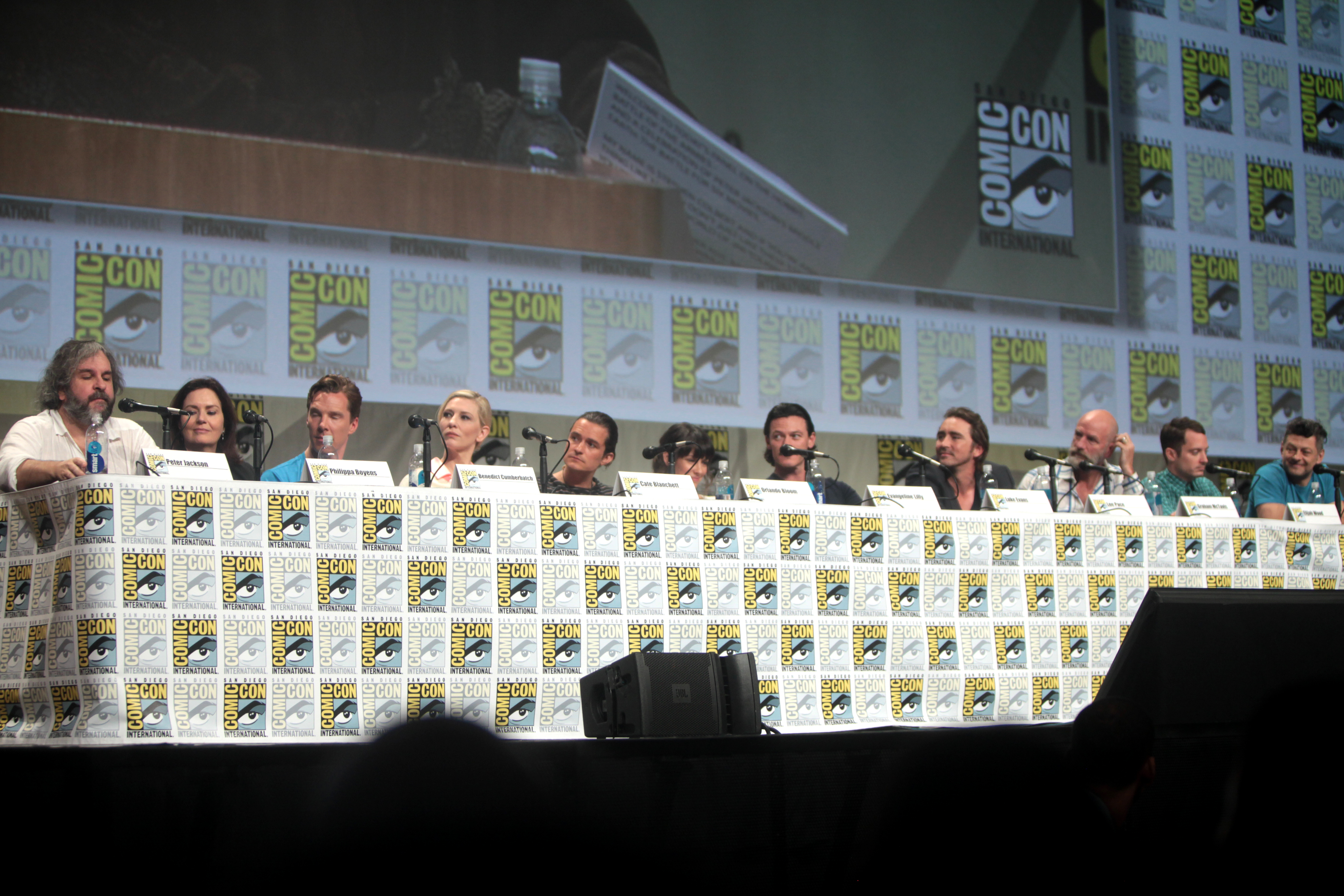 The Hobbit The Battle of Five Armies panel at 2014 San Diego Comic-Con International